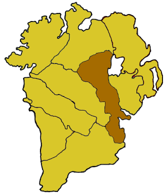 Catholic Archdiocese of Armagh.